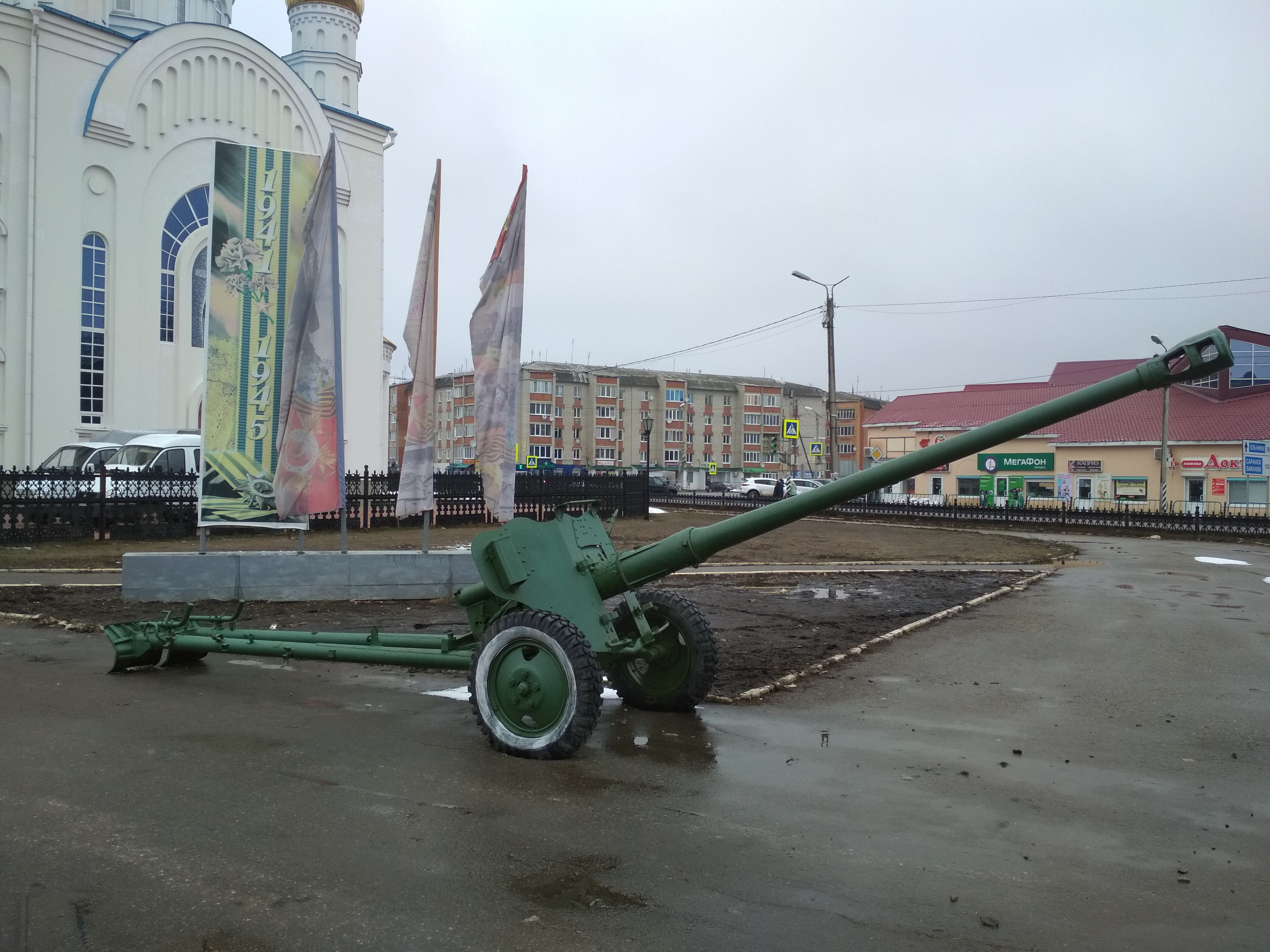 85-mm divisional cannon D-44, installed at the monument to the war fallen in the Great Patriotic War of 1941-1945. City of Krasnoslobodsk, Mordovia.